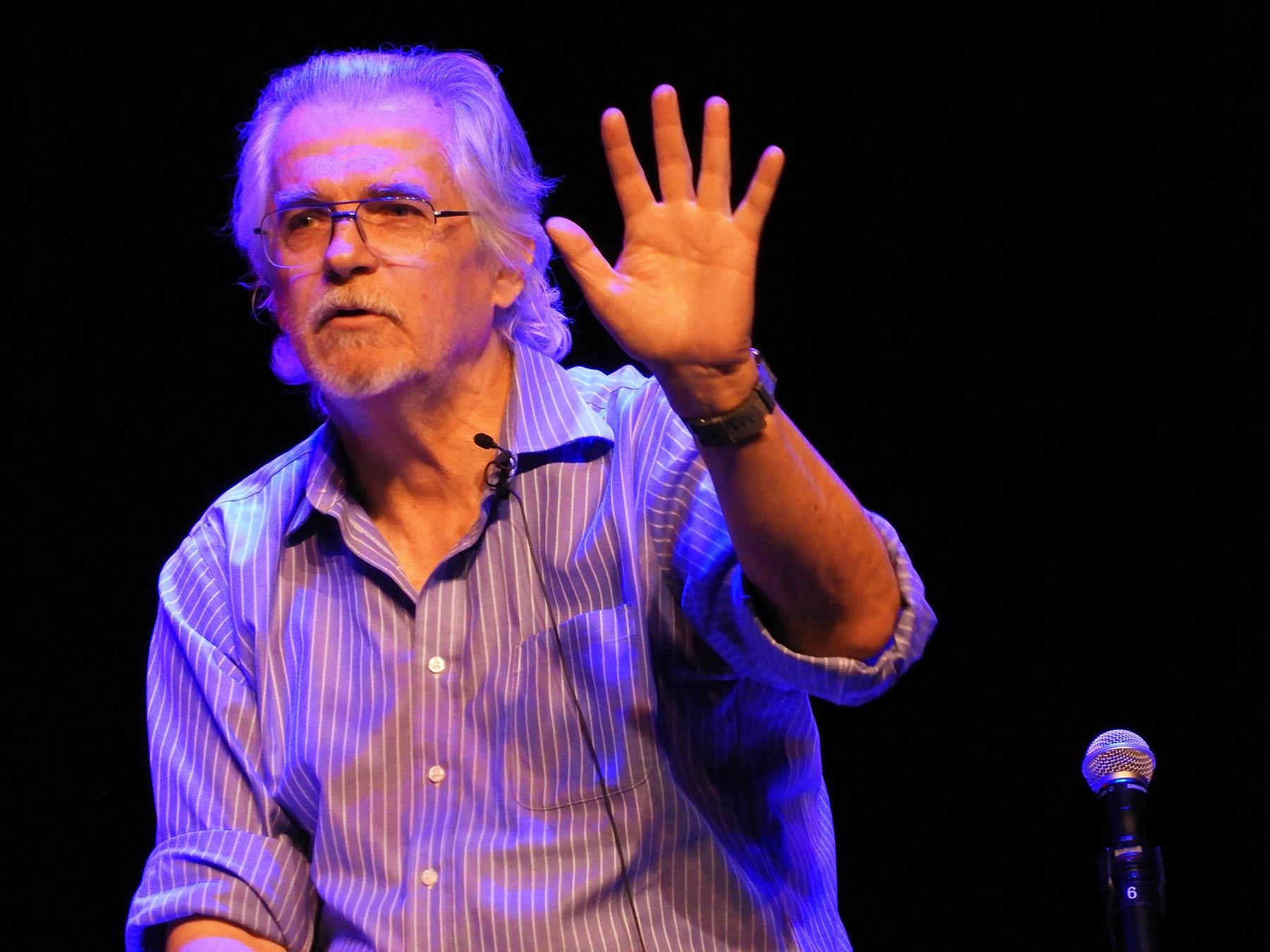 Photo of 20BooksVegas, the indie writers conference in Las Vegas, Nov. 6-8, 2018.